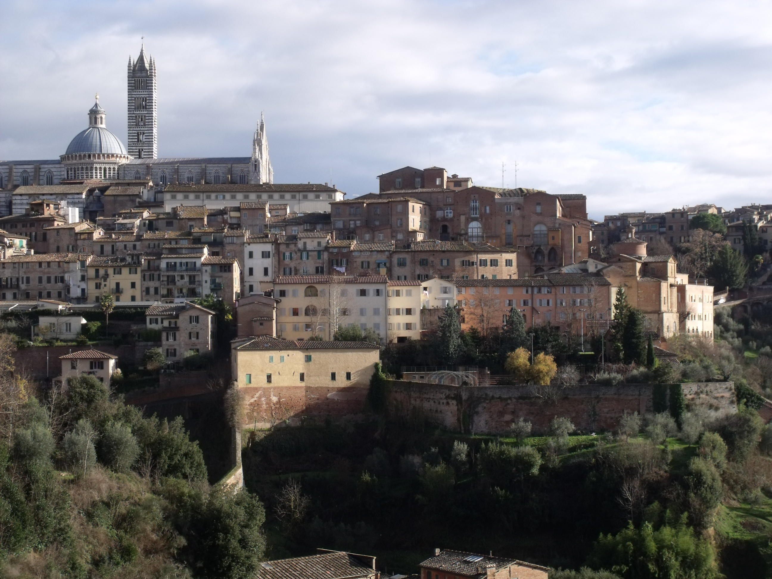 Duomo, Santa Maria della Scala, Chiesa di San Sebastiano in Vallepiatta, City walls (seen from San Prospero), Siena